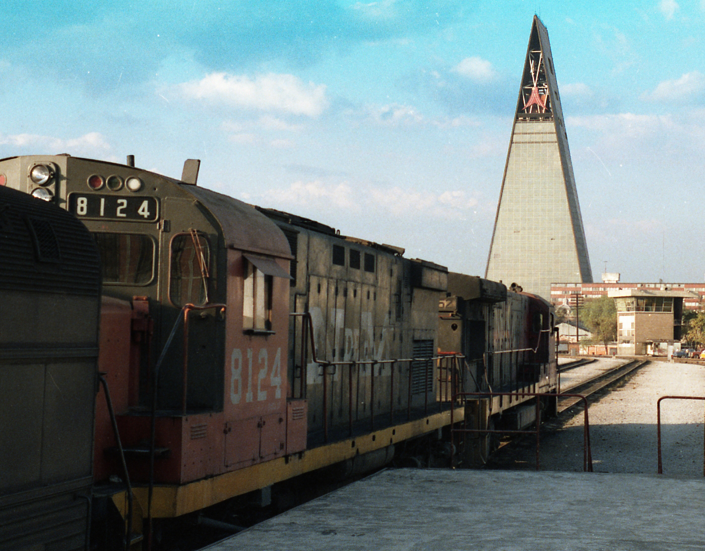 Ferrocarriles Nacionales de México, A train at Mexico City Station in 1984